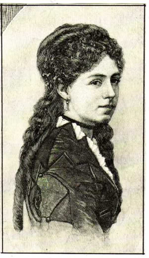 Portrait of Blanche Butler Ames from Butler's Book by her father, Benjamin F. Butler